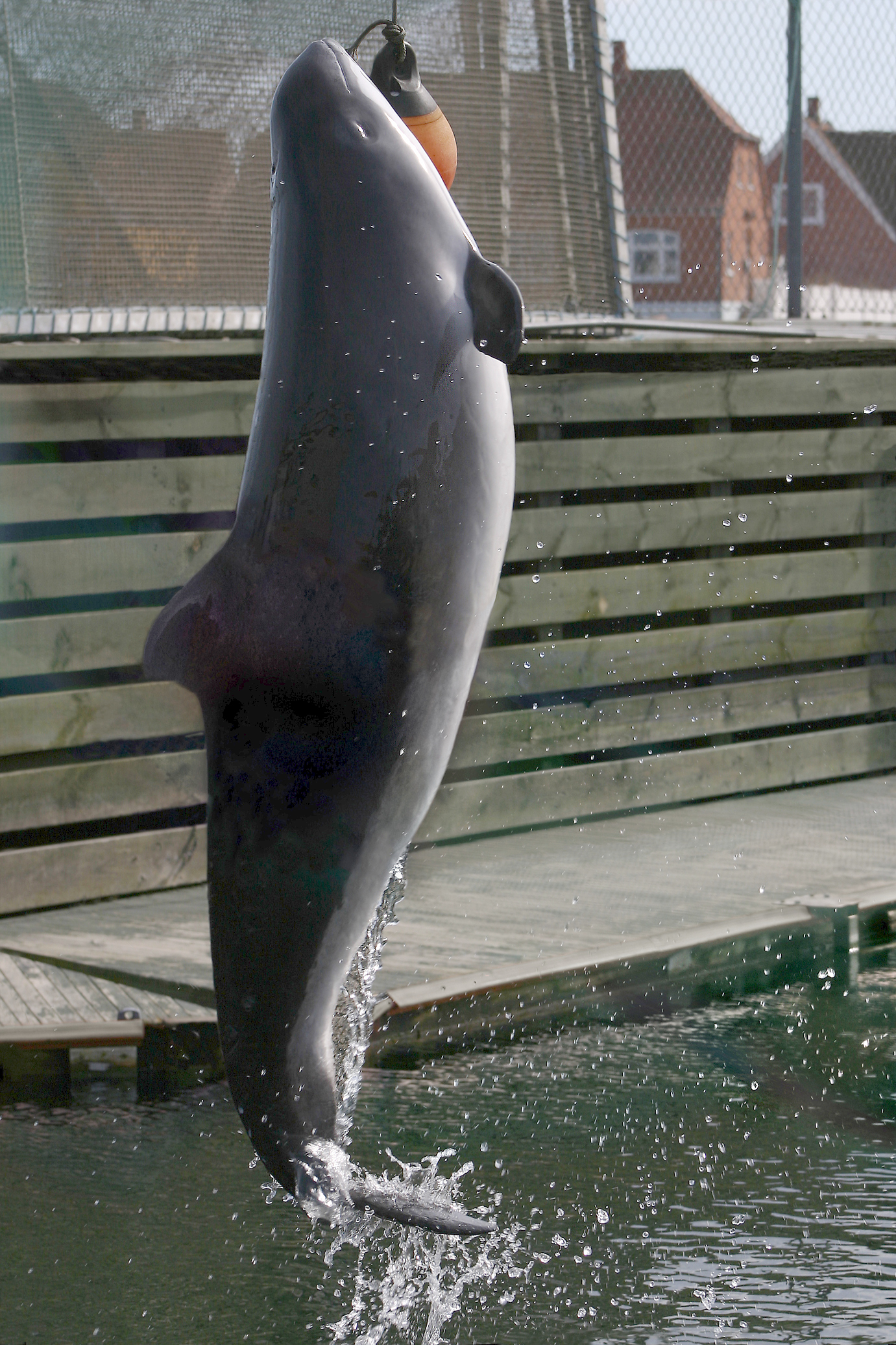 Lightened version of Image:Marsvin (Phocoena phocoena).jpg